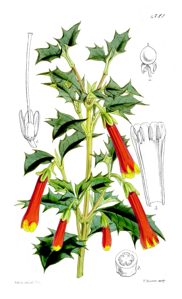 Illustration of Desfontainia spinosa